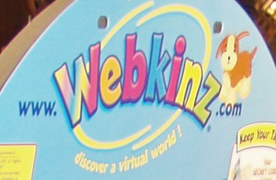 Kids looking through bins of Webkinz at a Cracker Barrel in Pueblo, Colorado, USA.